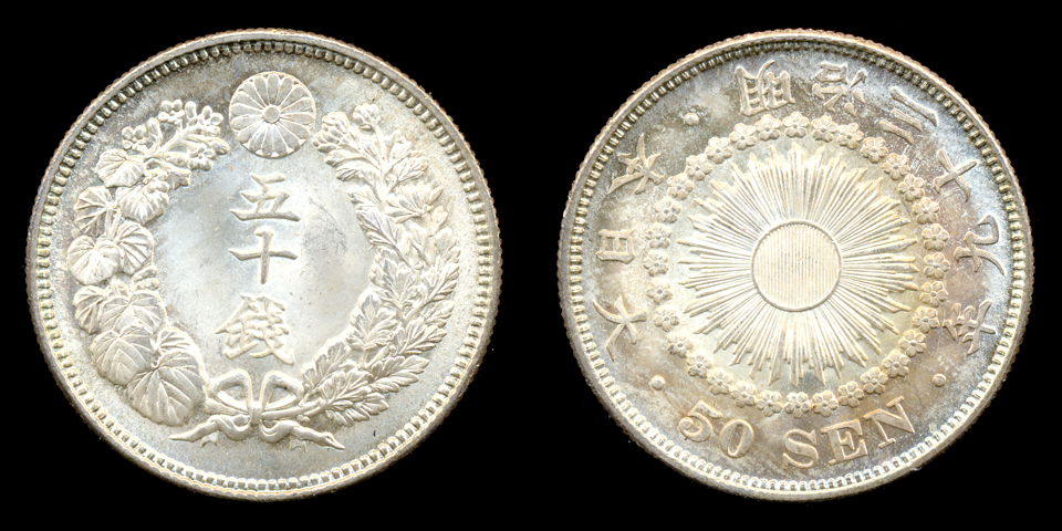 50sen-M39